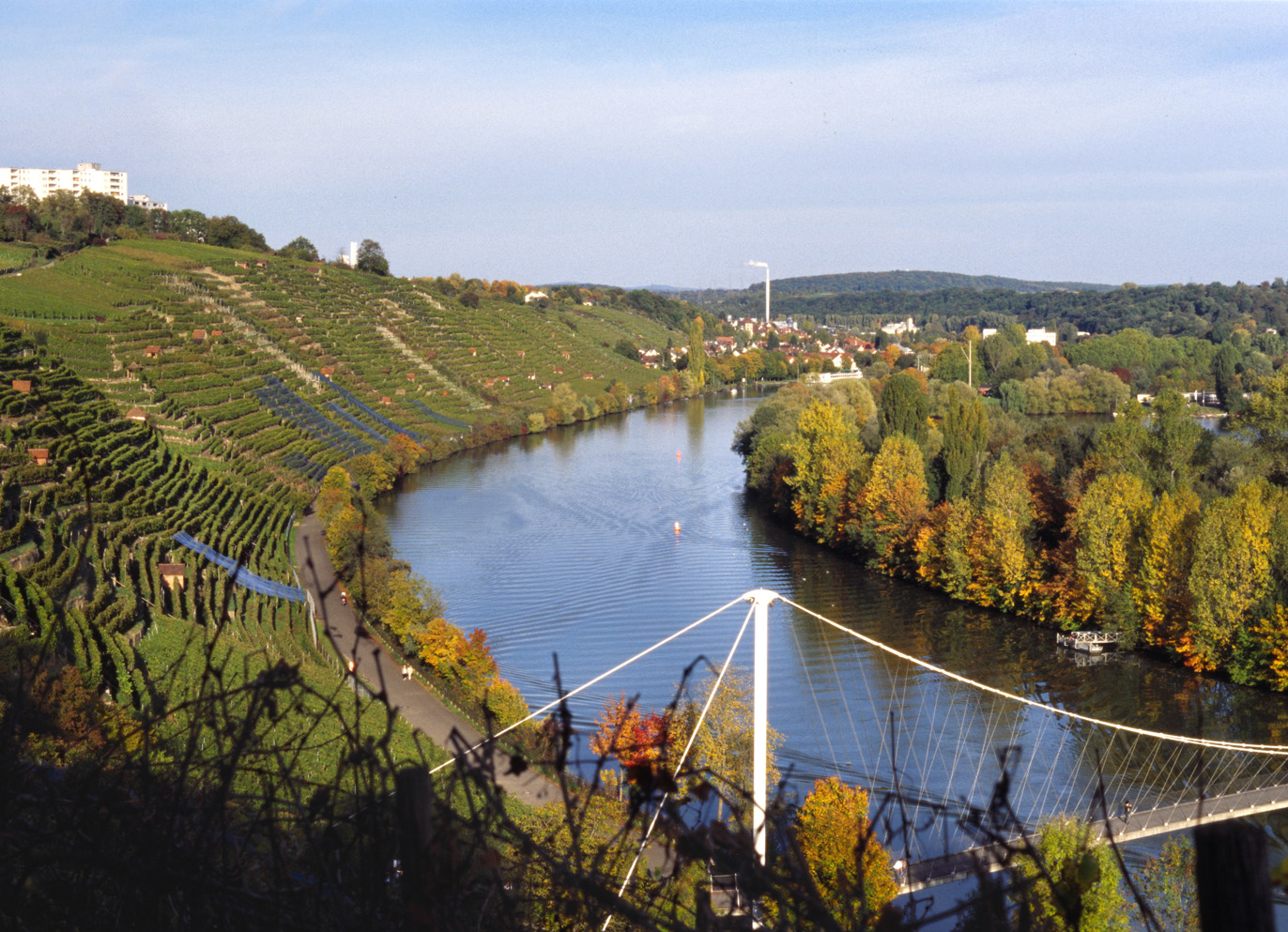 Zuckerle Vineyard, Stuttgart Mühlhausen, Baden-Württemberg, Germany